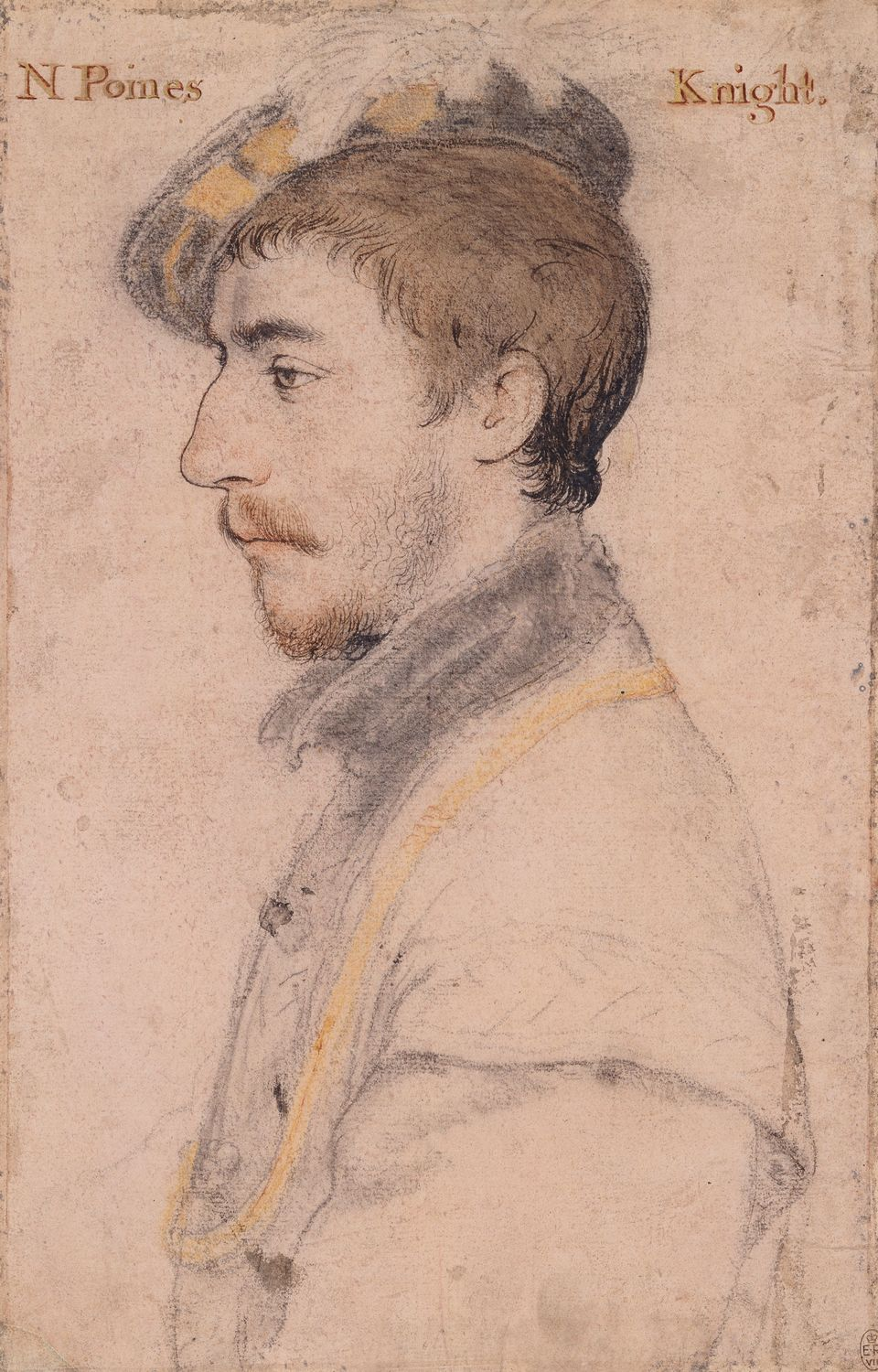 Portrait of Sir Nicholas Poyntz. Black and coloured chalks, pen and Indian ink on pink-primed paper, 28.4 × 18.3 cm, Royal Collection, Windsor Castle. The chalks are badly rubbed, and some of the penwork seems not to be Holbein's (Parker, p. 45). Various pictures and miniatures based on the drawing have survived, none of them by Holbein himself (see "Other versions" below). From these the date of 1535 and the sitter's age of 25 are derived. Reference K. T. Parker, The Drawings of Hans Holbein at Windsor Castle, Oxford: Phaidon, 1945, OCLC 822974.